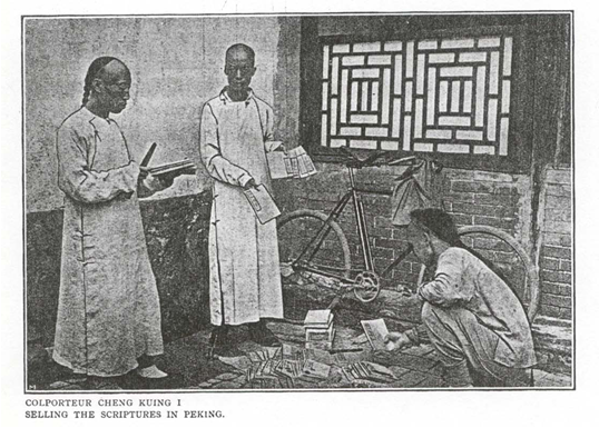 colporteur Chen Kuing I selling the scriptures in Peking